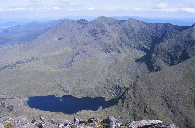 Macgillycuddy's Reeks: Lough Callee and Cnoc na Péiste (Knocknapeasta) In this view taken from 1434274 Lough Callee is the lake at the bottom at 329 metres above sea level. Cnoc na Péiste, which is the fourth highest peak in Ireland at 988 metres, is the second from the right of the group of four distant summits. The others, from left to right are at 932, 939 and 973 metres respectively. The northern end of Lough Cummeennapeasta is just visible to the left of Cnoc na Péiste, in front of the two subsidiary peaks.